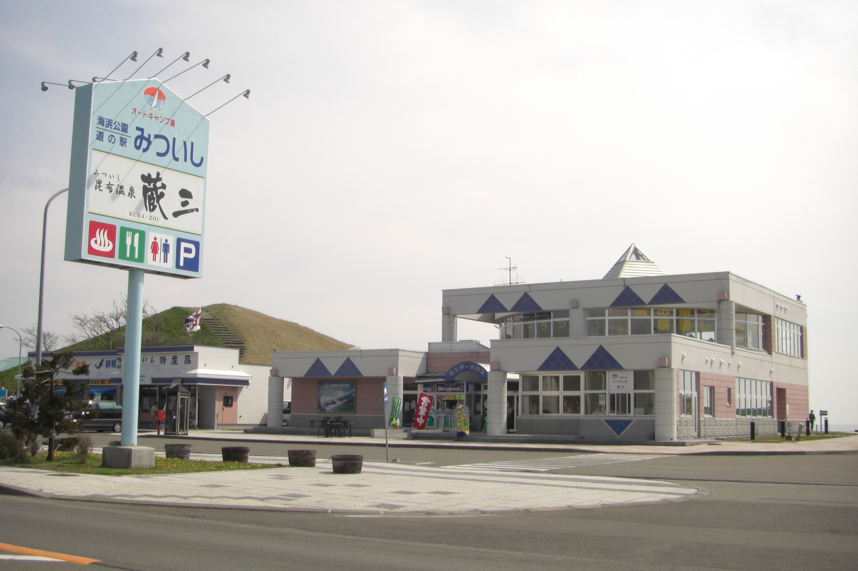 Roadside Station Mitsuishi in Shinhidaka, Hokkaido, Japan. It is on the Japan National Route 235.